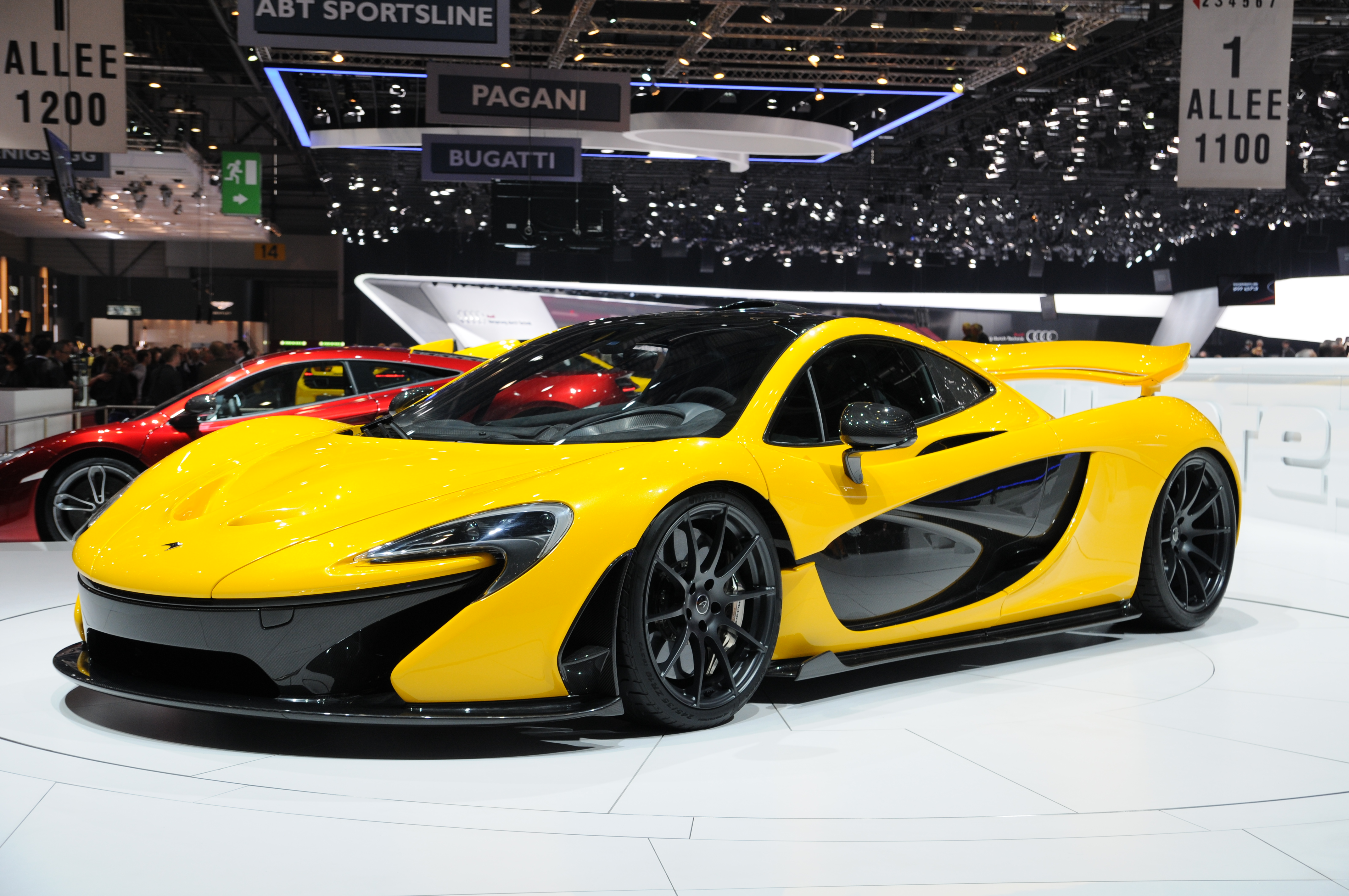 Geneva Motor Show 2013 (photos taken on the first press day)